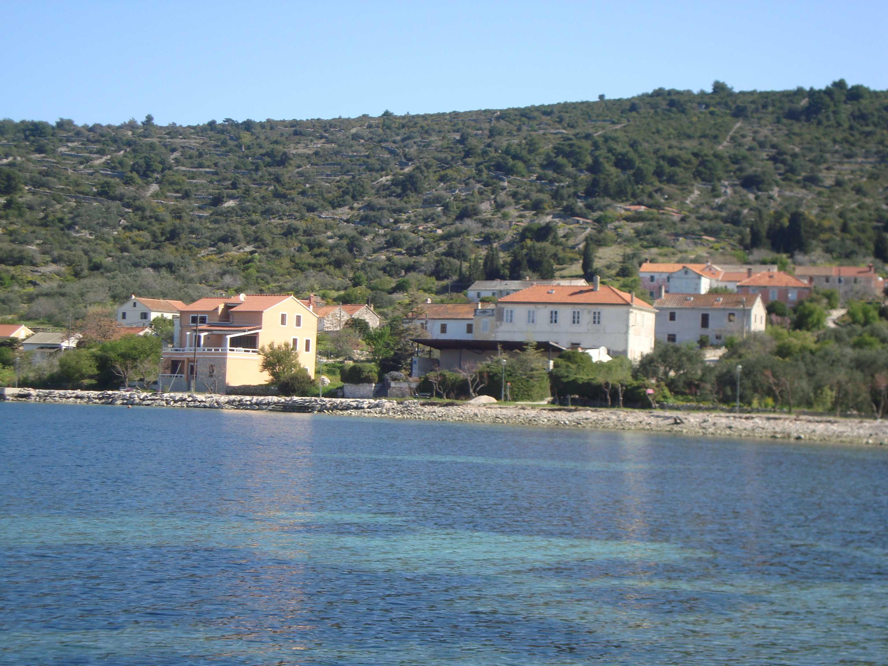 Soline Soline!